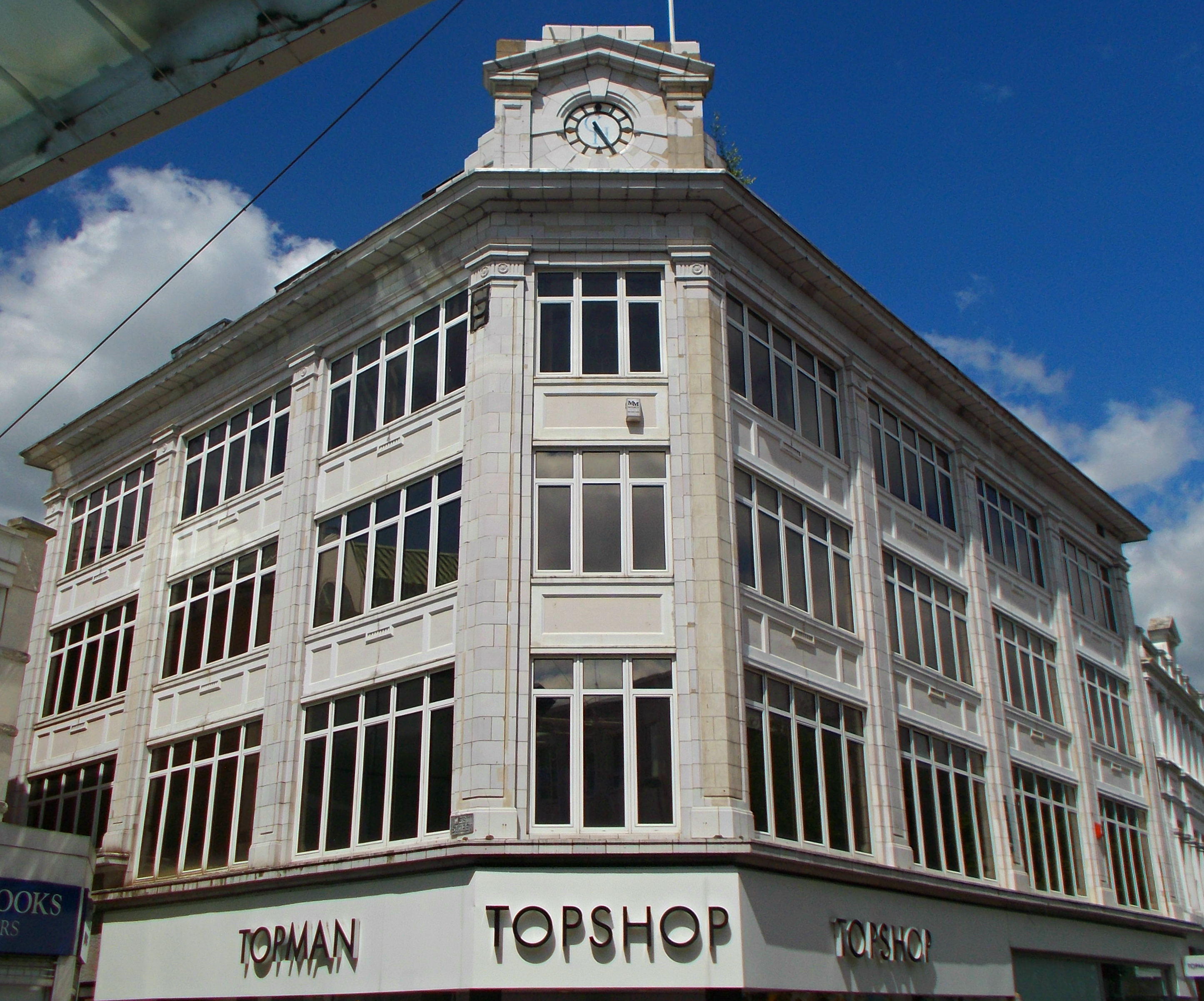 Sutton is 10 miles from central London